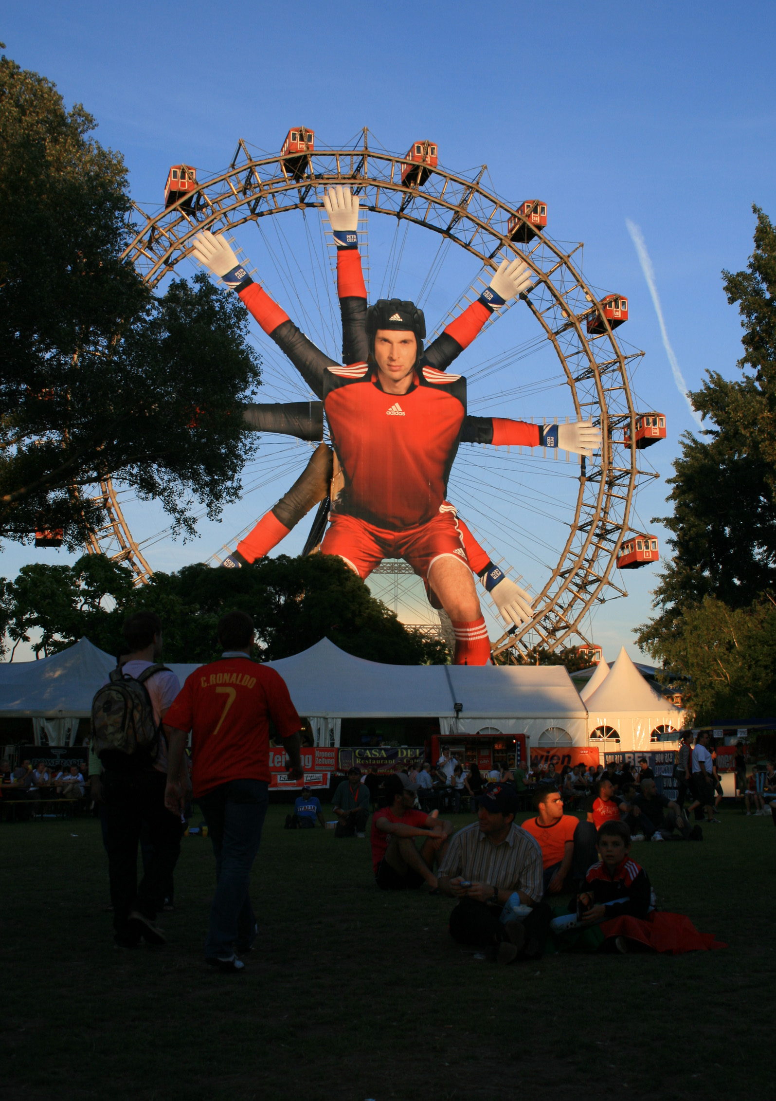 The Riesenrad in Vienna (Austria) during the UEFA Euro 2008 with an image of Czech goalkeeper Petr Čech. Austria, Vienna, Prater, Wiener Riesenrad